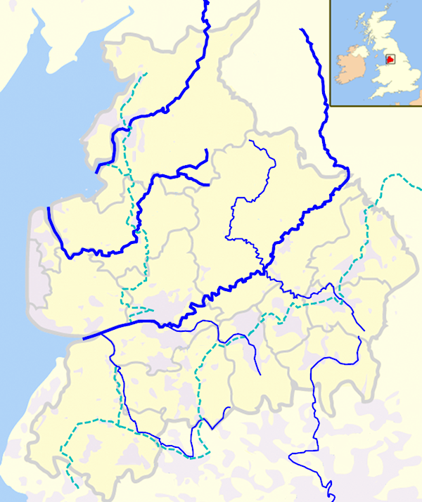 Rivers and canals in the ceremonial county of Lancashire in England